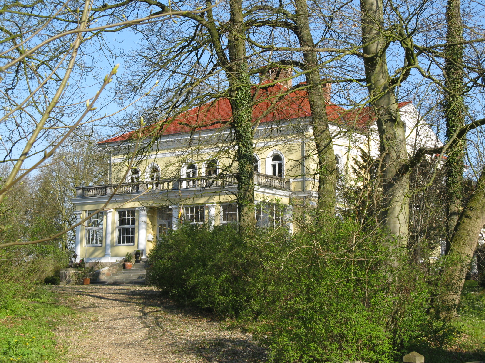 Former manor house in Herzberg, district Ludwigslust-Parchim, Mecklenburg-Vorpommern, Germany